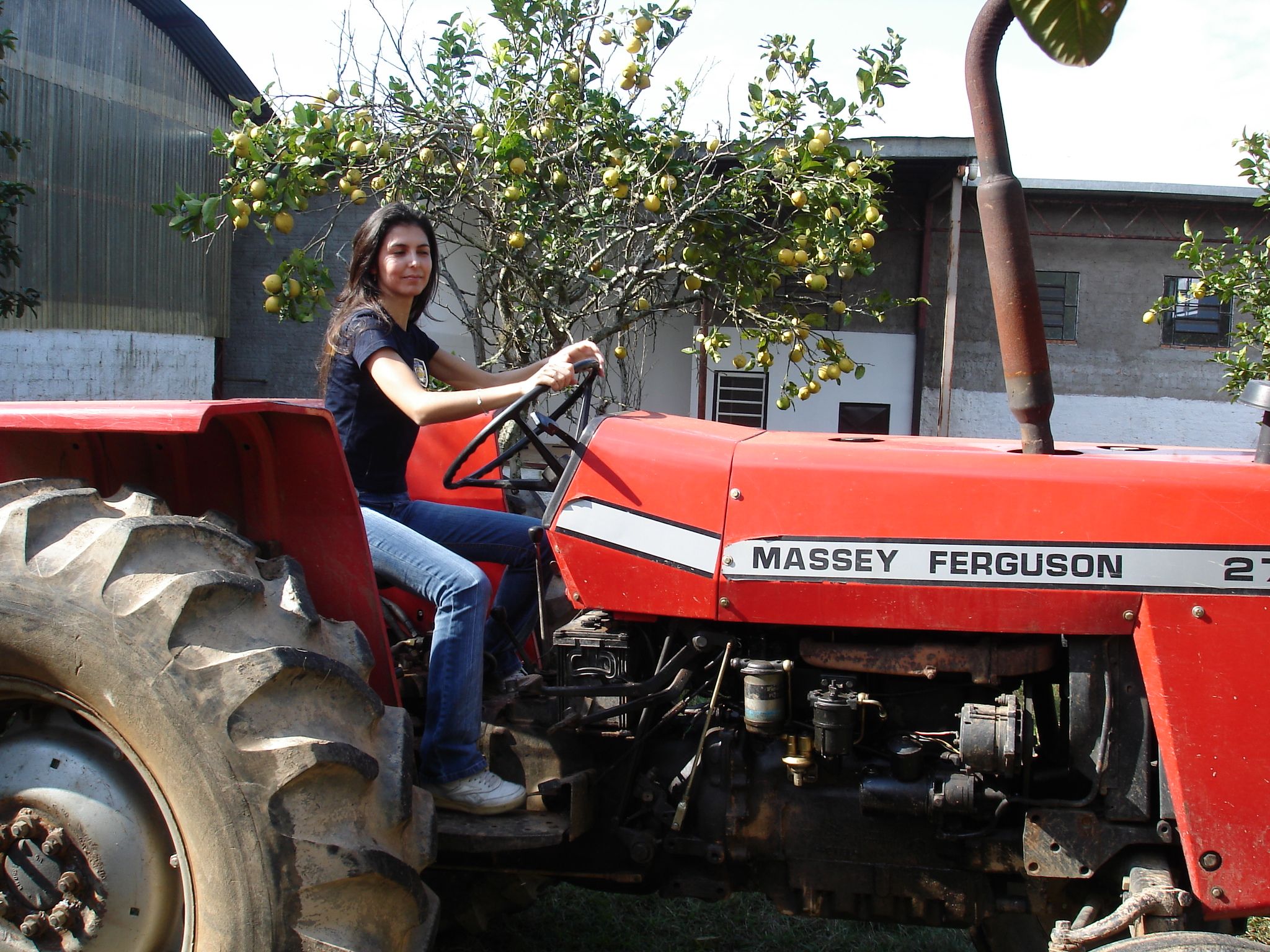 Close em Trator massey Ferguson